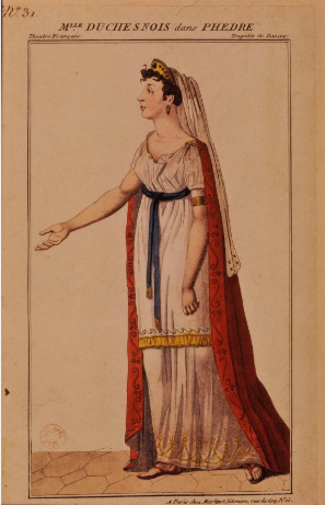 Cropped image (removing framing) of Mademoiselle Duschesnois as Phèdre in 1802. Image from the French National Library.